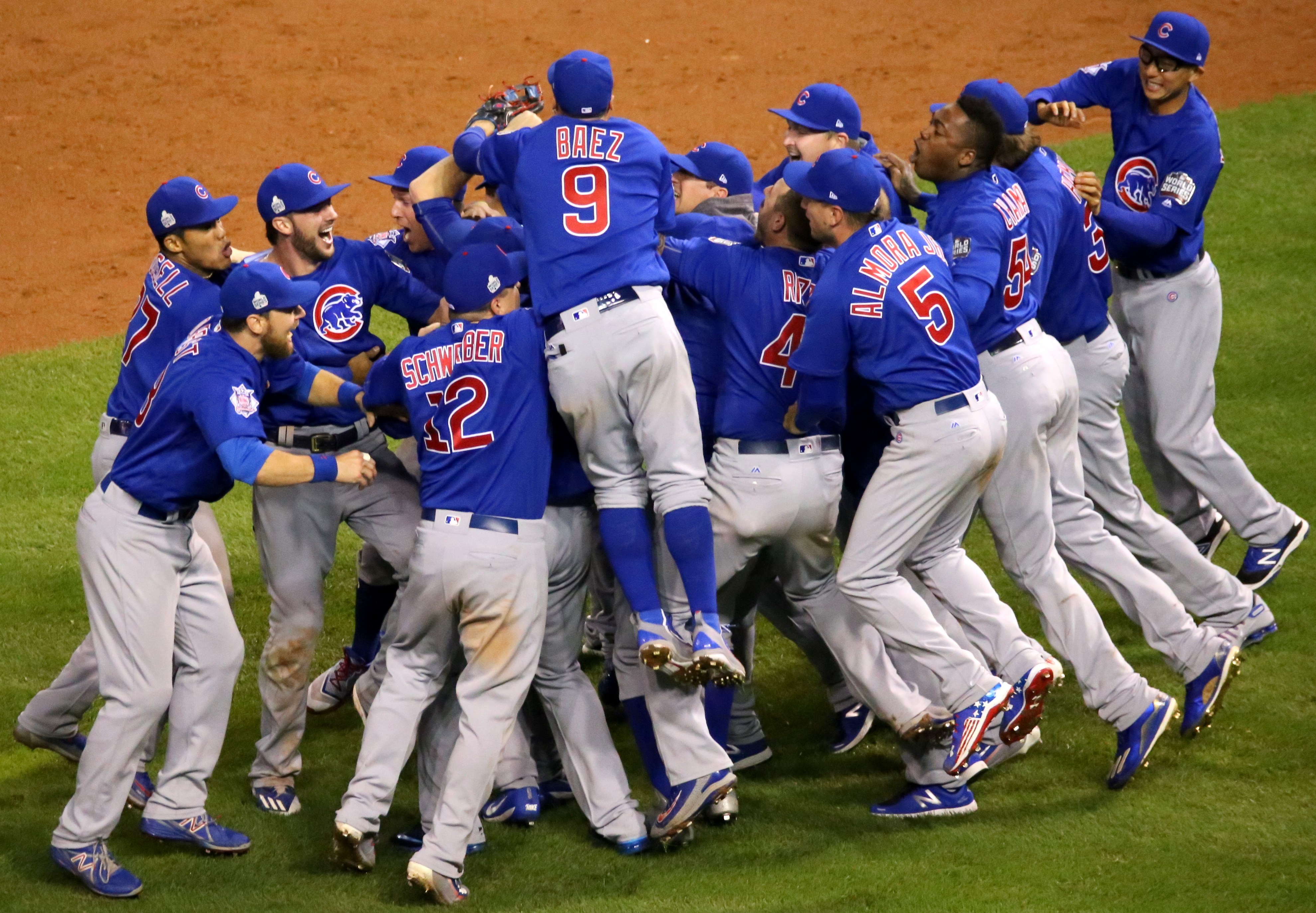 The Cubs celebrate after winning the 2016 World Series.